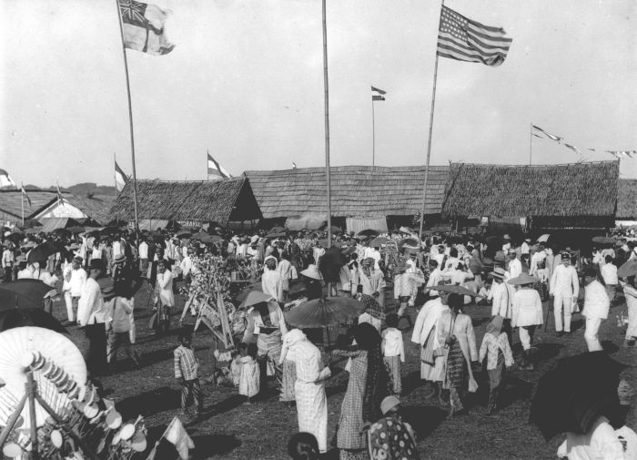 Visitors to the Pasar Malam in Batavia